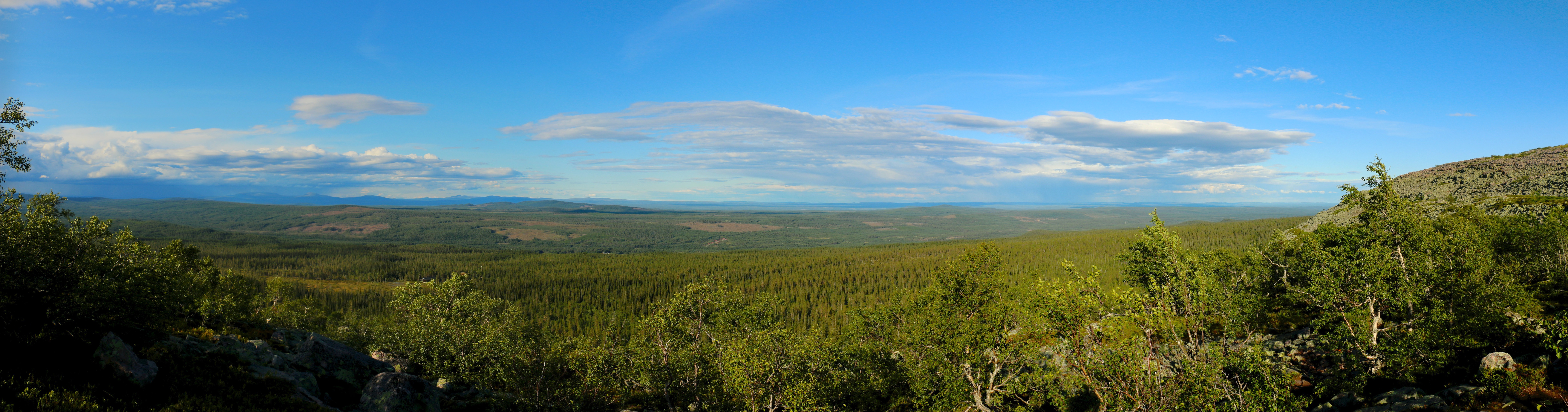 View from the Fulufjället plateau, not far from Njupeskär